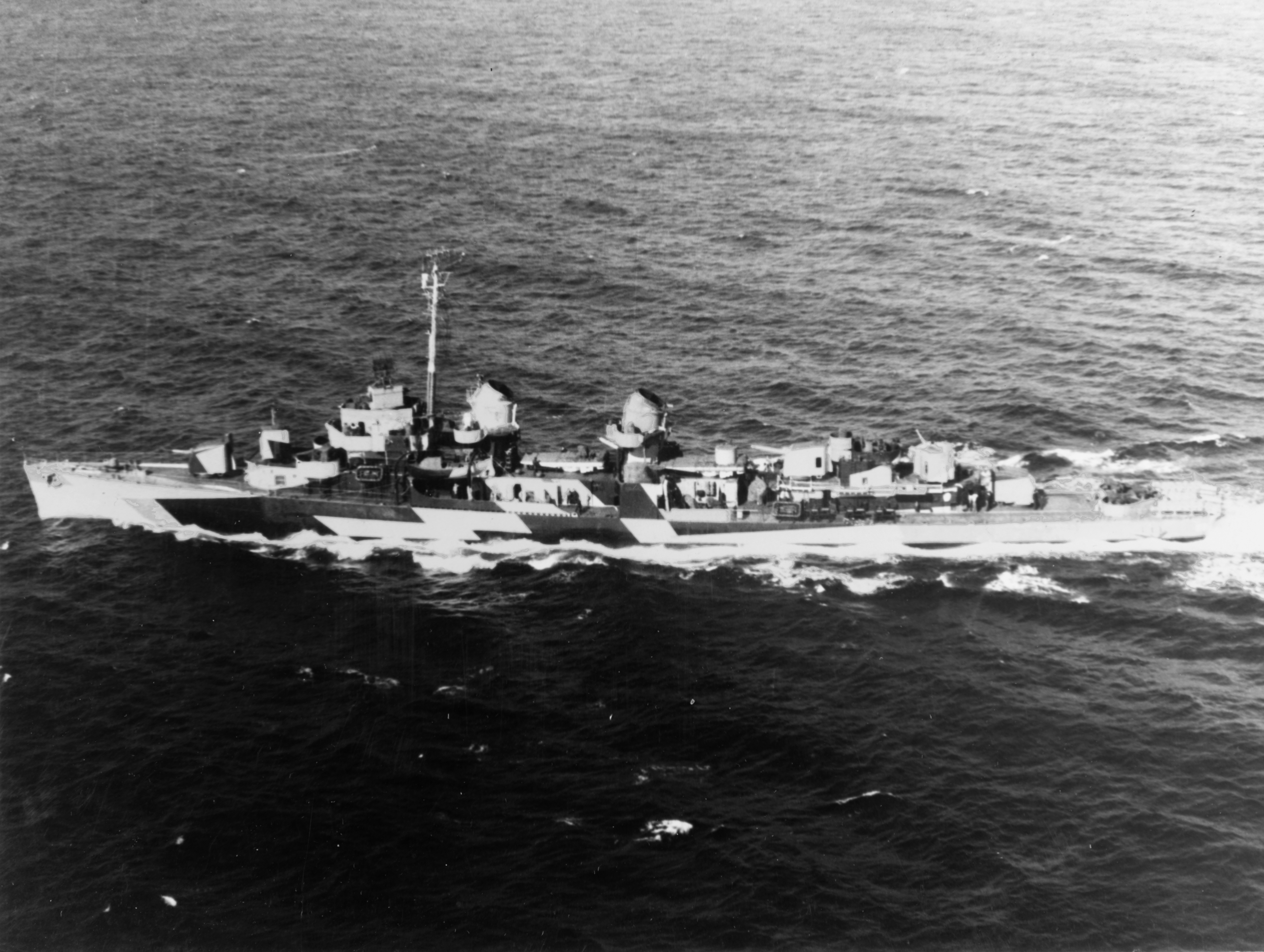 The U.S. Navy destroyer USS Twiggs (DD-591) underway in the Atlantic Ocean on 7 December 1944. She is painted in Camouflage Measure 32, Design 6D. Photographed by Naval Air Station Weeksville. Position: 36°54', 75°13'; Course: 265; Time: 1414; Altitude: 300'; Camera: K-20; F.L. 4.5"; Shutter speed: f/250.